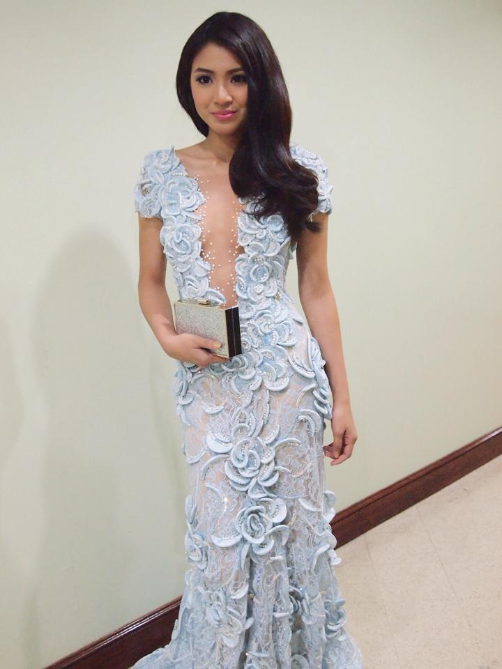 Nadine at MMFF Awards Night